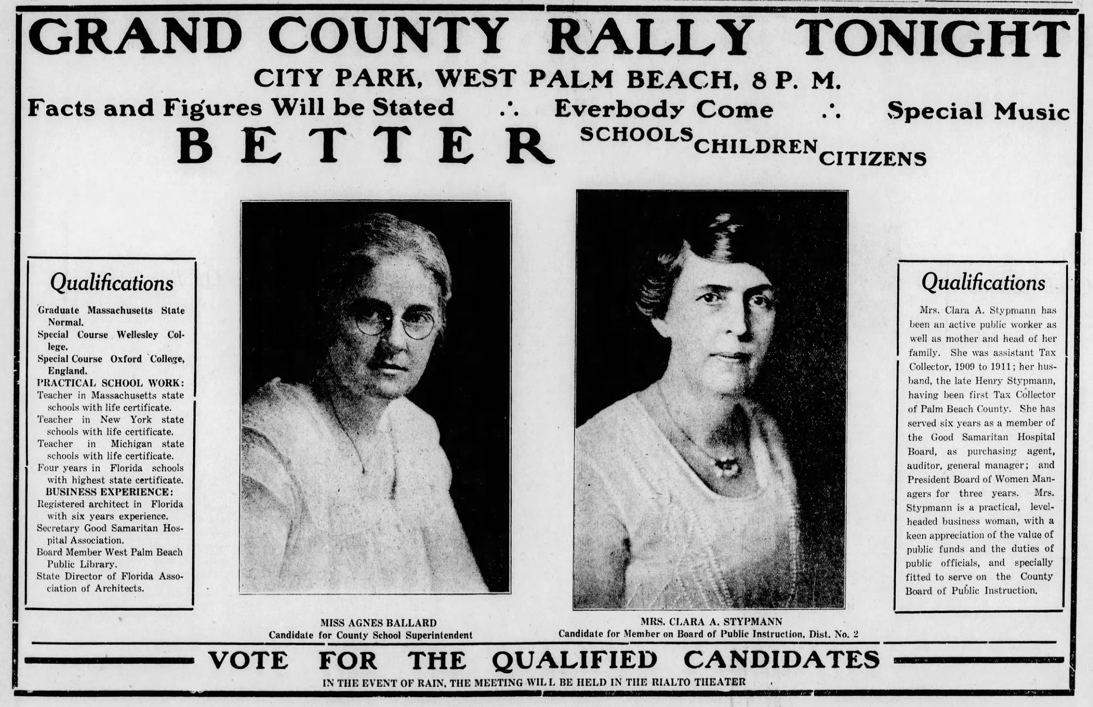 Agnes L. Ballard (September 14, 1877 – November 24, 1969) was an American architect and educator. She was the first woman registered architect in Florida, the sixth woman to be a member of the American Institute of Architects nationwide and was the one of the first women to hold elected office in Florida.